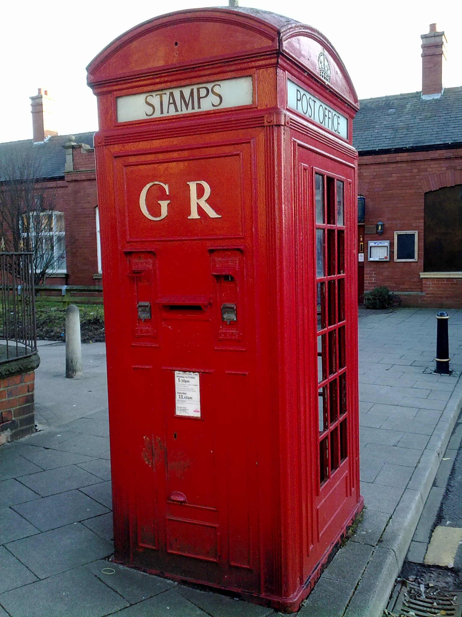 Red telephone box of the rare K4 design, incorporating a stamp machine, outside Whitley Bay Metro station on the Tyne and Wear Metro.